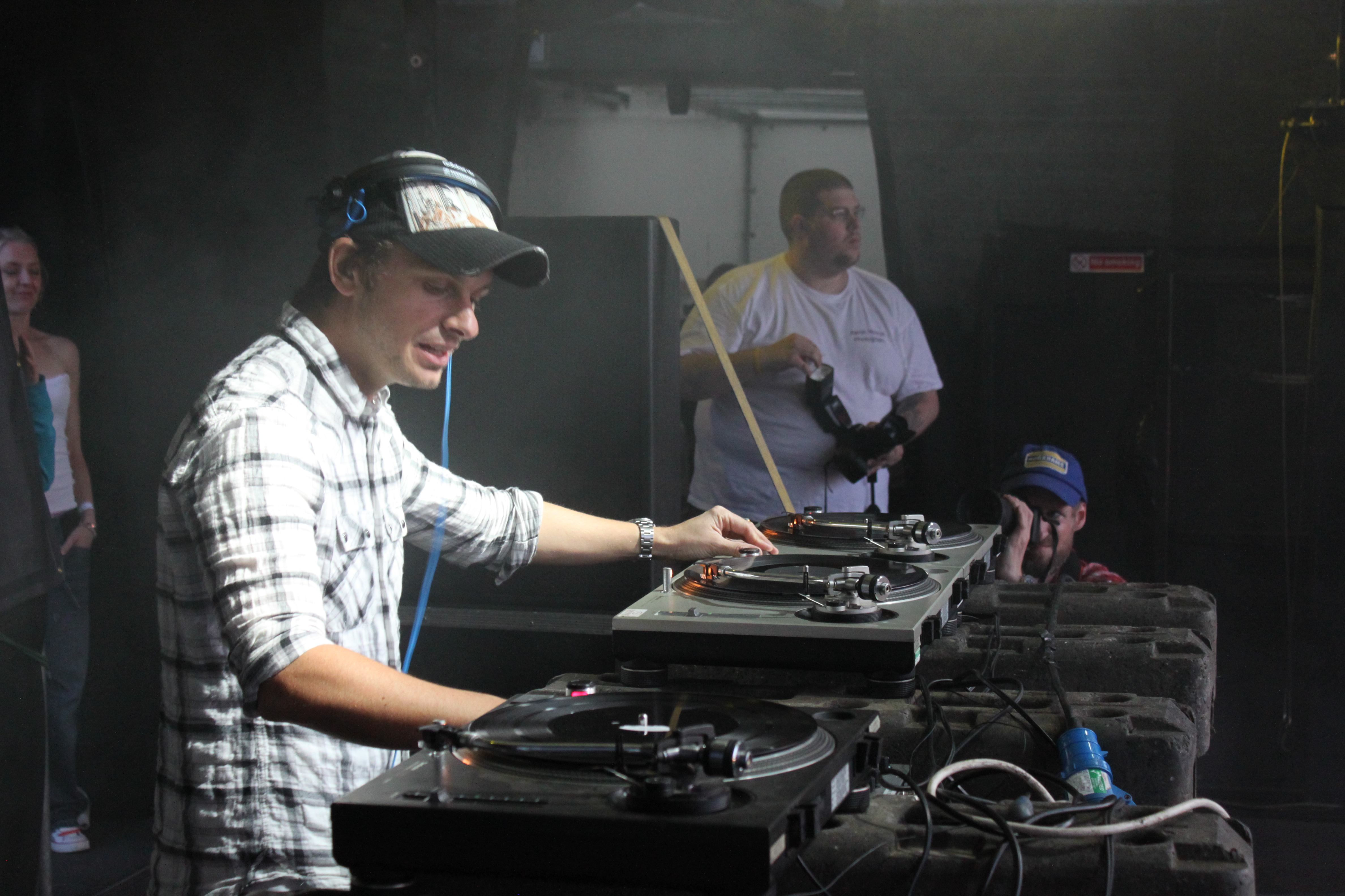 Andy C live in 2011